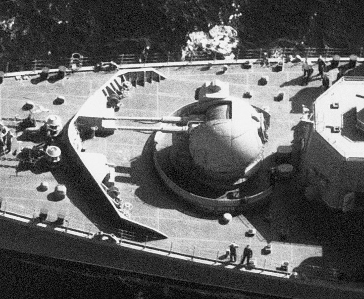 An aerial starboard view of the bow section of a Soviet Slava class guided missile cruiser showing 16 SS-N-12 missiles, a twin 130 mm dual purpose gun, and two 30 mm gatling guns.